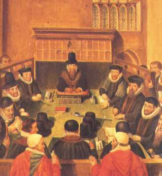 William Cecil presiding over the Court of Wards